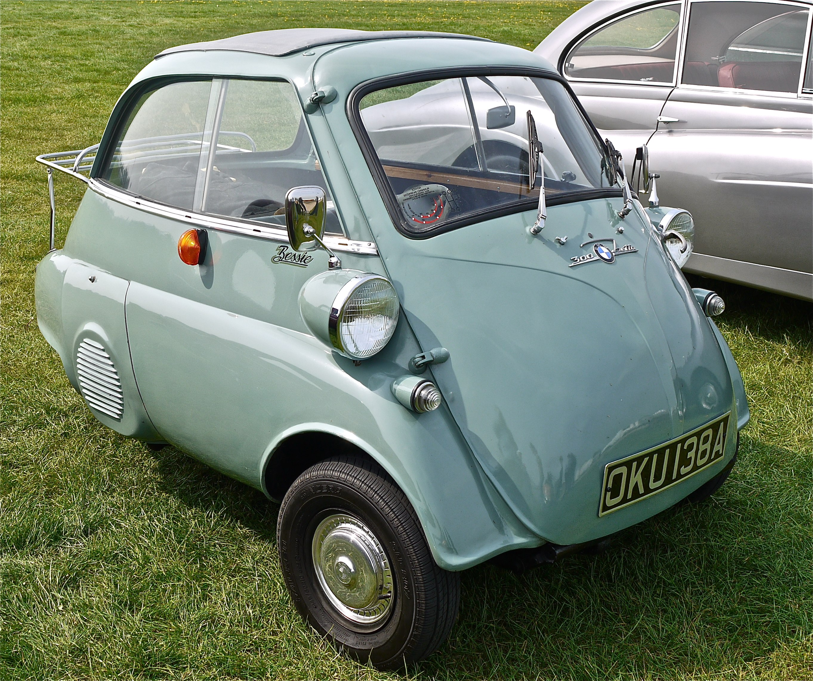 BMW Isetta; Panasonic G1 14-45 Lens